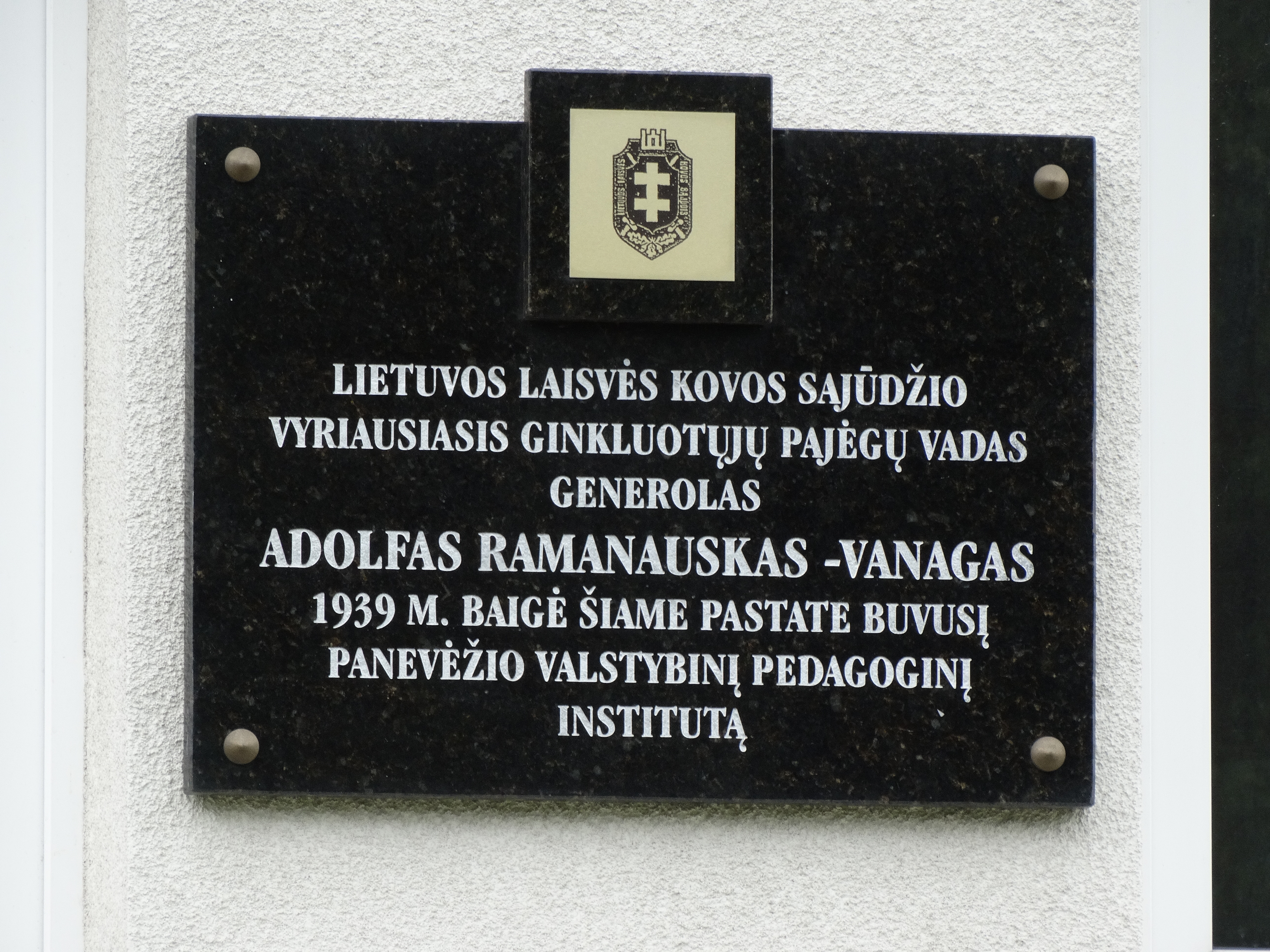 Memorial plaque to Adolfas Ramanauskas, Panevėžys, Lithuania